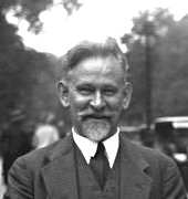 Wilhelm Dittmann, detail from File:Bundesarchiv Bild 102-10129, Reichstagsabgeordnete Dittmann und Crispien.jpg